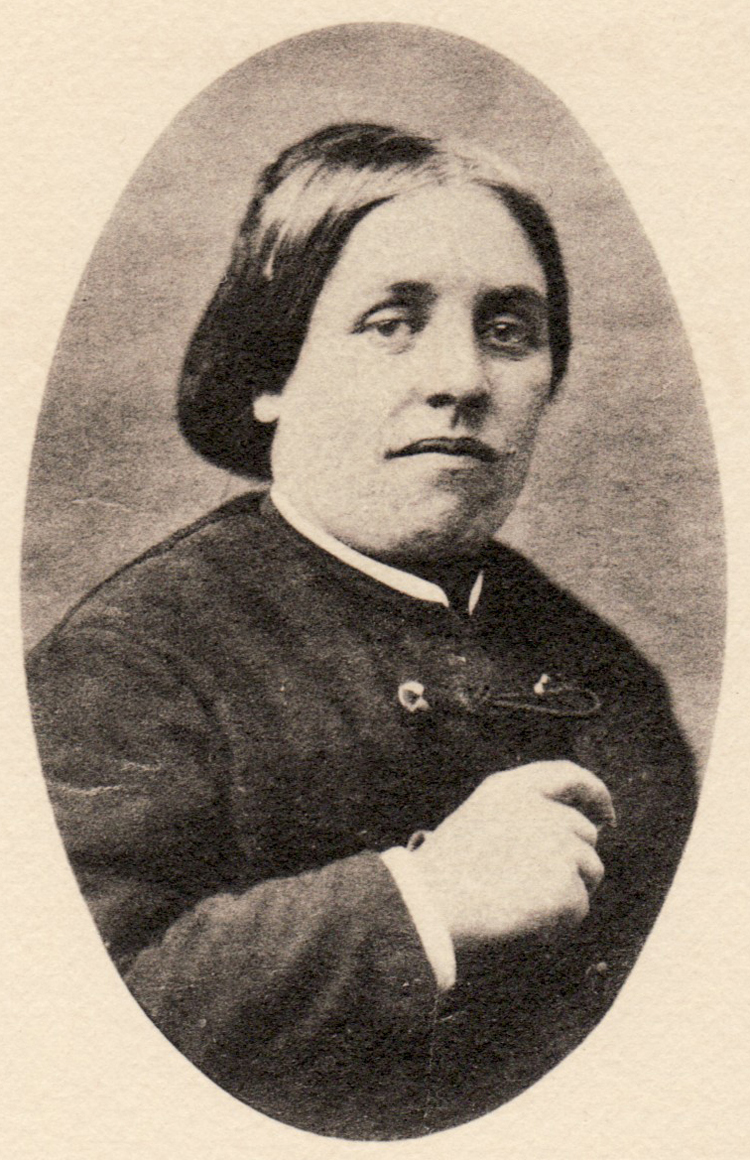 Amélie Gex (1835-1883), poet, journalist, and writer from France